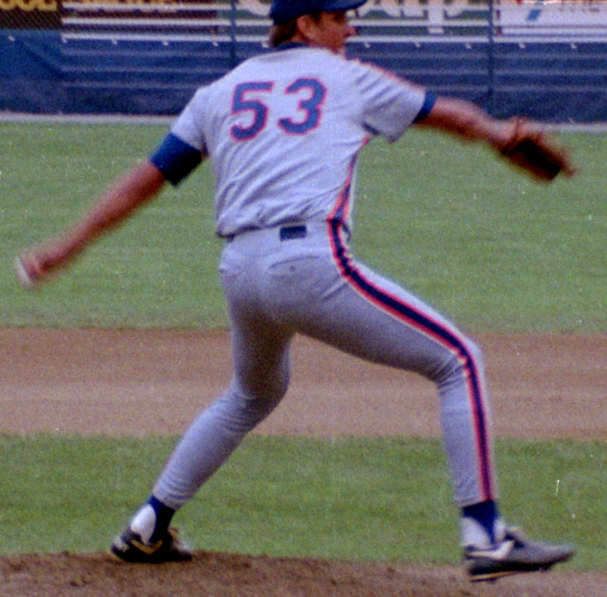 Eric Hillman delivers a pitch for the Tidewater Tides during a 1992 game at Ned Skelton Stadium in Toledo, Ohio